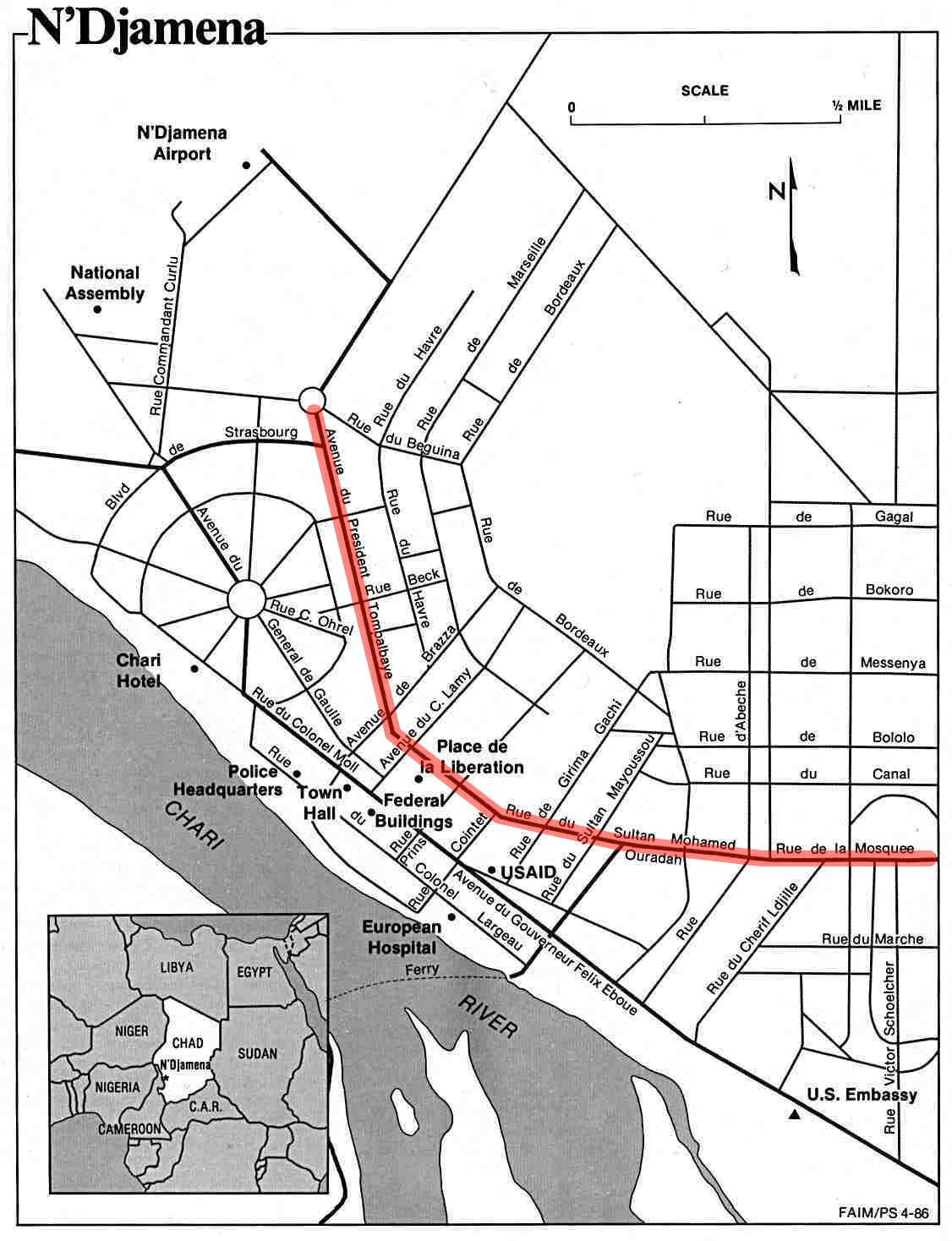 Charles de Gaulle Avenue in N'djamena, Chad (map shows older names of the street: see the more modern map at [1])